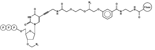 3′-O-azidomethyl 2′-deoxynucleoside triphosphate